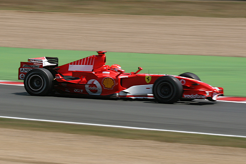 Michael Schumacher driving for Ferrari at the 2006 French Grand Prix.